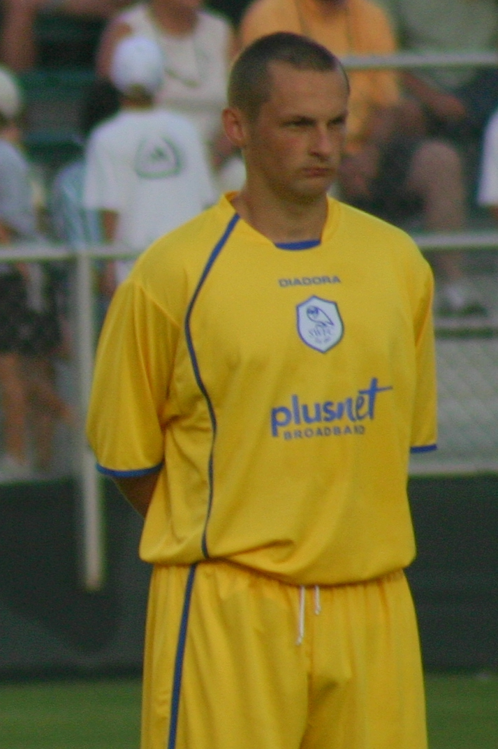 Kenny Lunt in SWFC's pre-season tour of the USA. USL All-Stars v Sheffield Wednesday 19th July 2006. Author: W. Jarrett